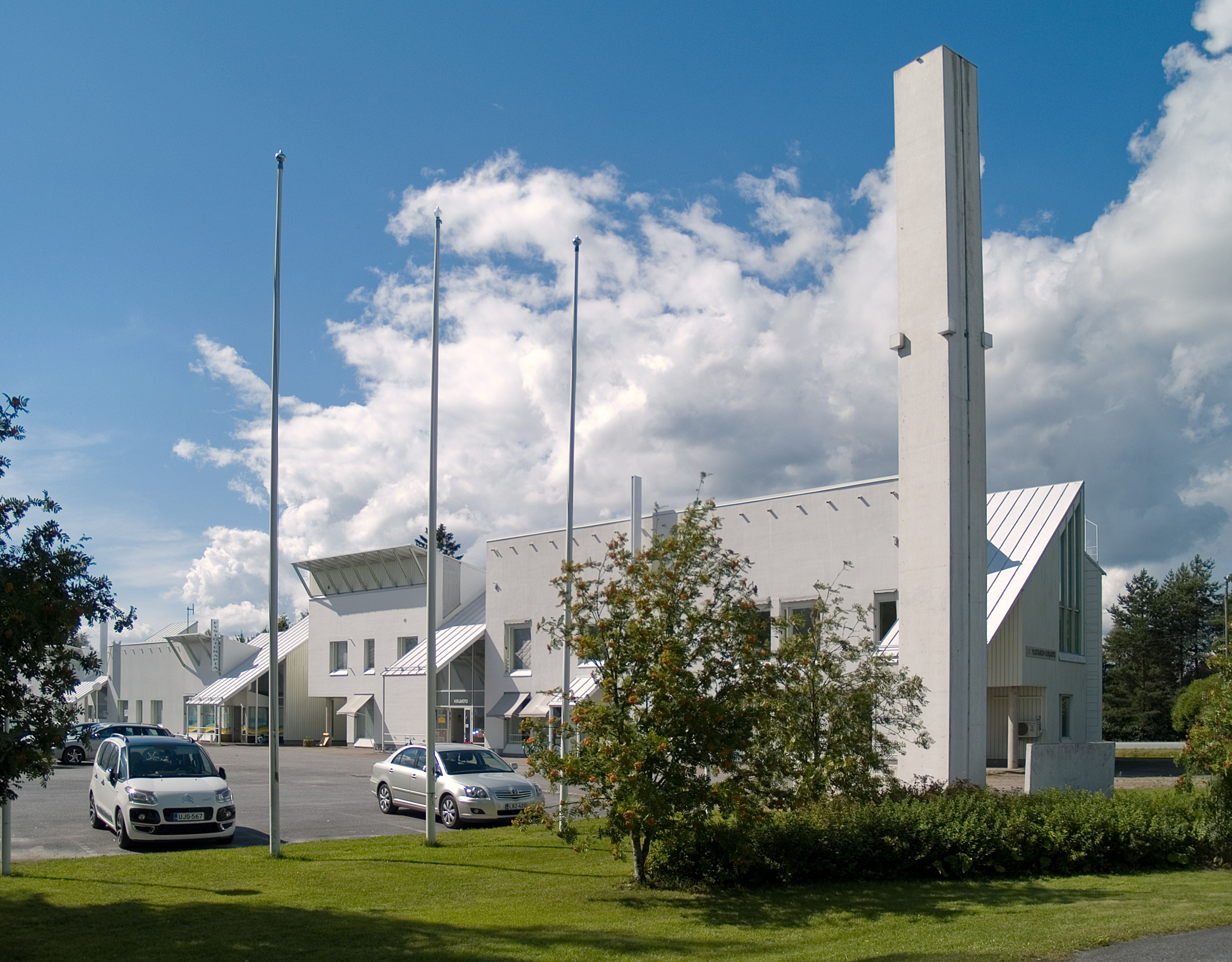 Ylistaro library, located in a small shopping centre in Ylistaro, Seinäjoki, Finland.